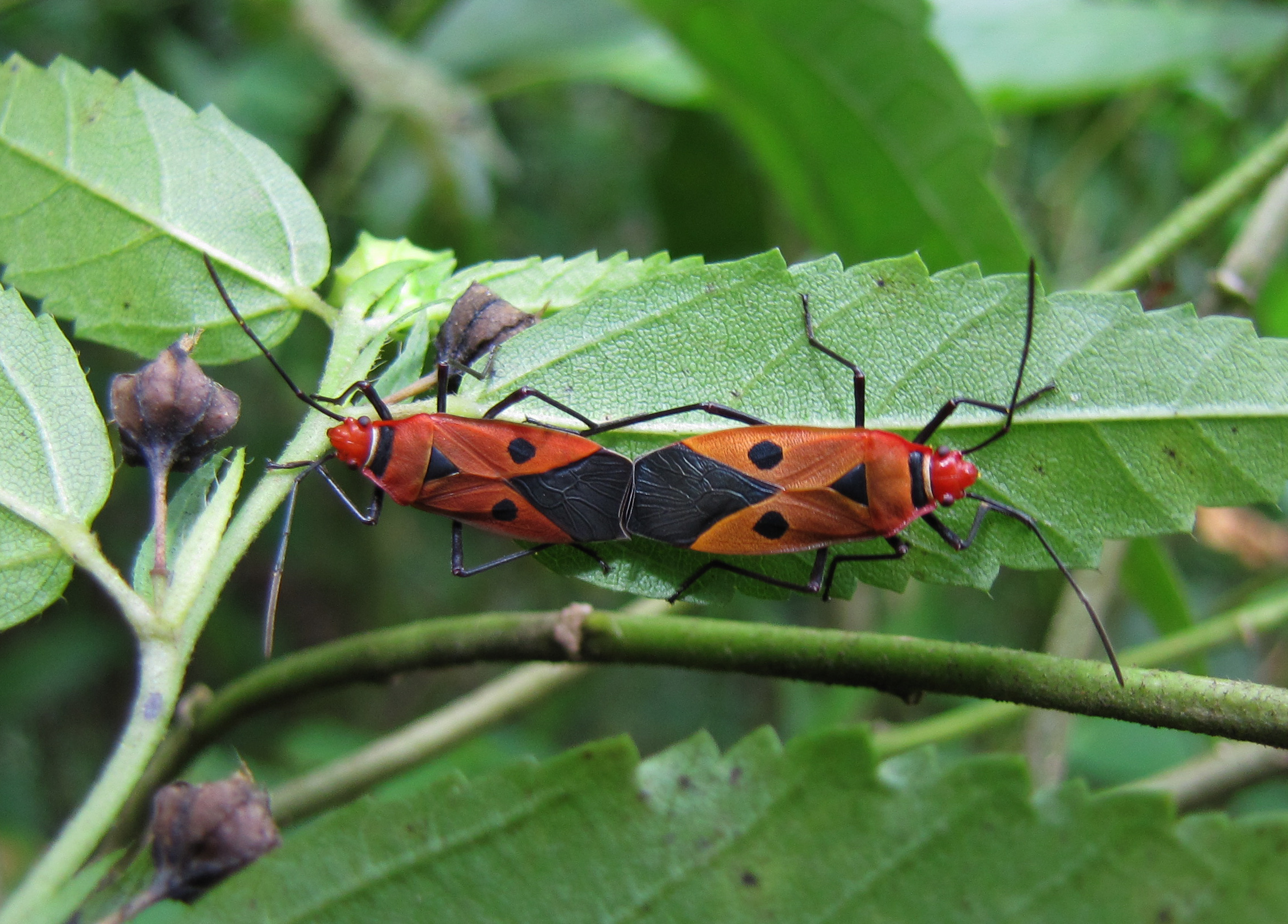 Dysdercus cingulatus, mating from Koovery